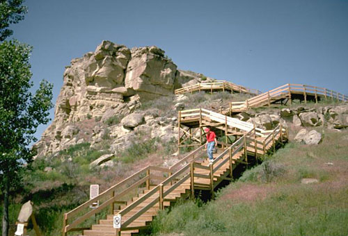 stairs at Pompeys Pillar National Monument, Montana